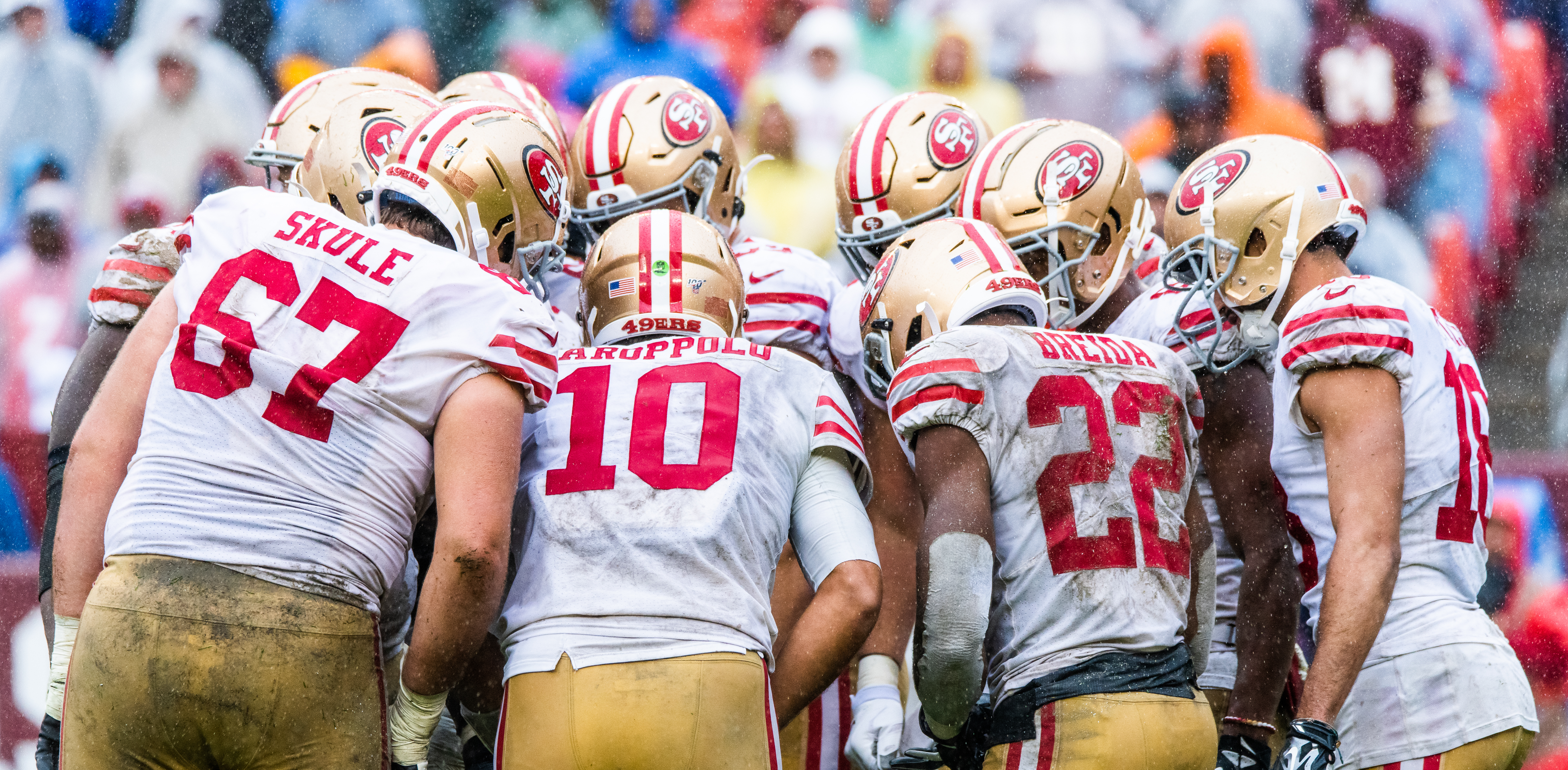 In 2019